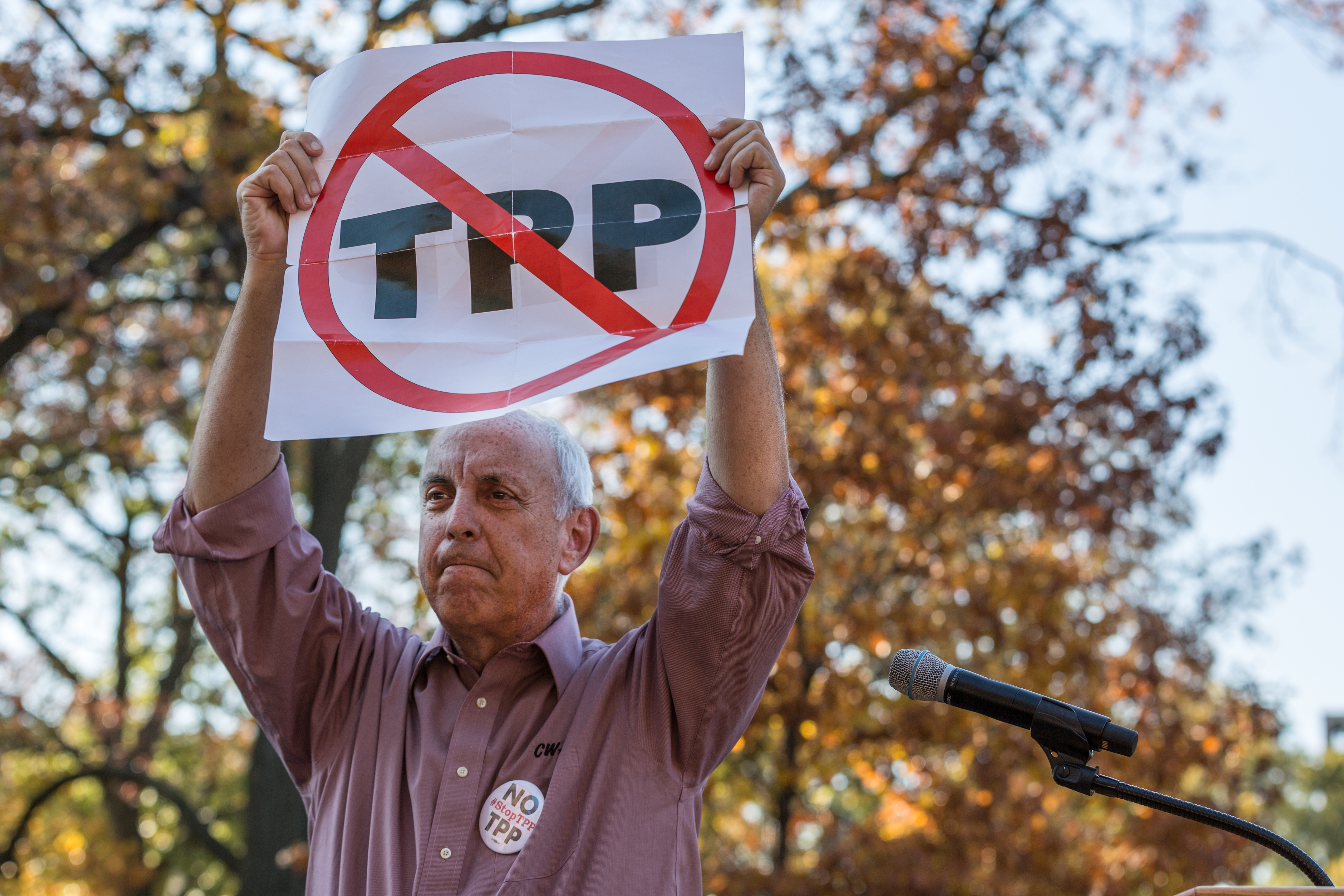 S. Capitol, Washington DC